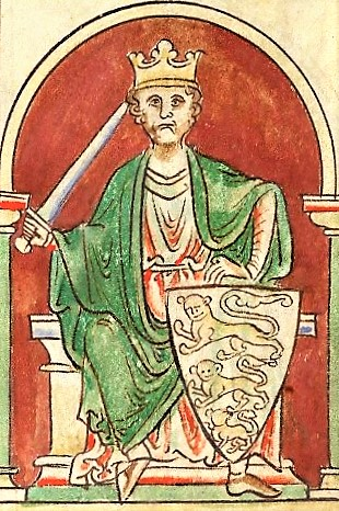 Richard I of England